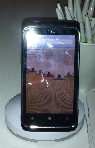 windows phone 7 #htc #momober